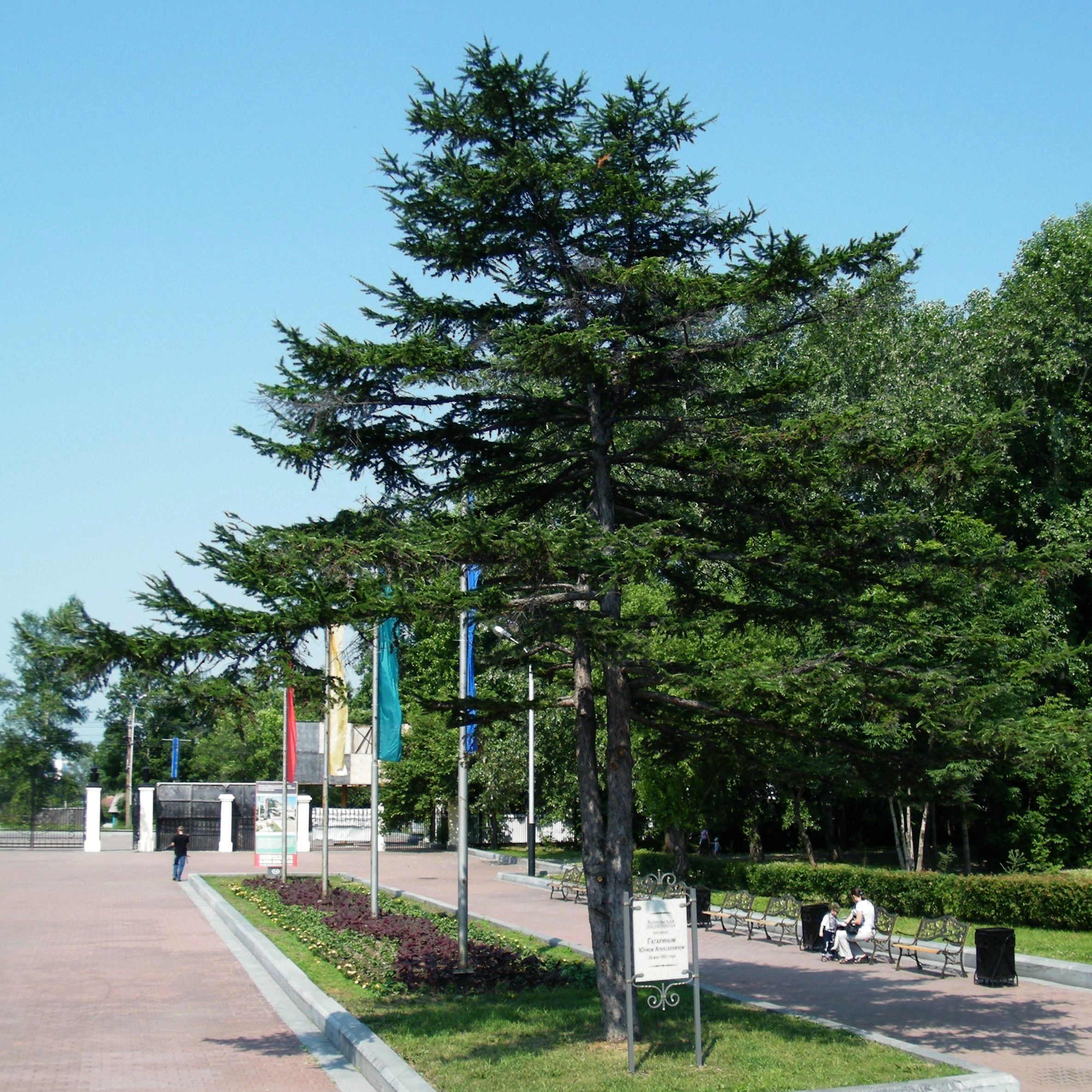 Larix gmelinii, planted by Yuri Gagarin in Khabarovsk, 1962-05-29.